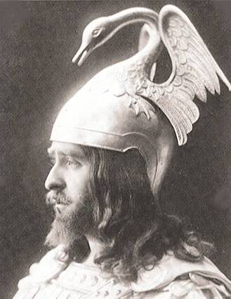 French opera singer Paul Franz (1876-1950) as Lohengrin